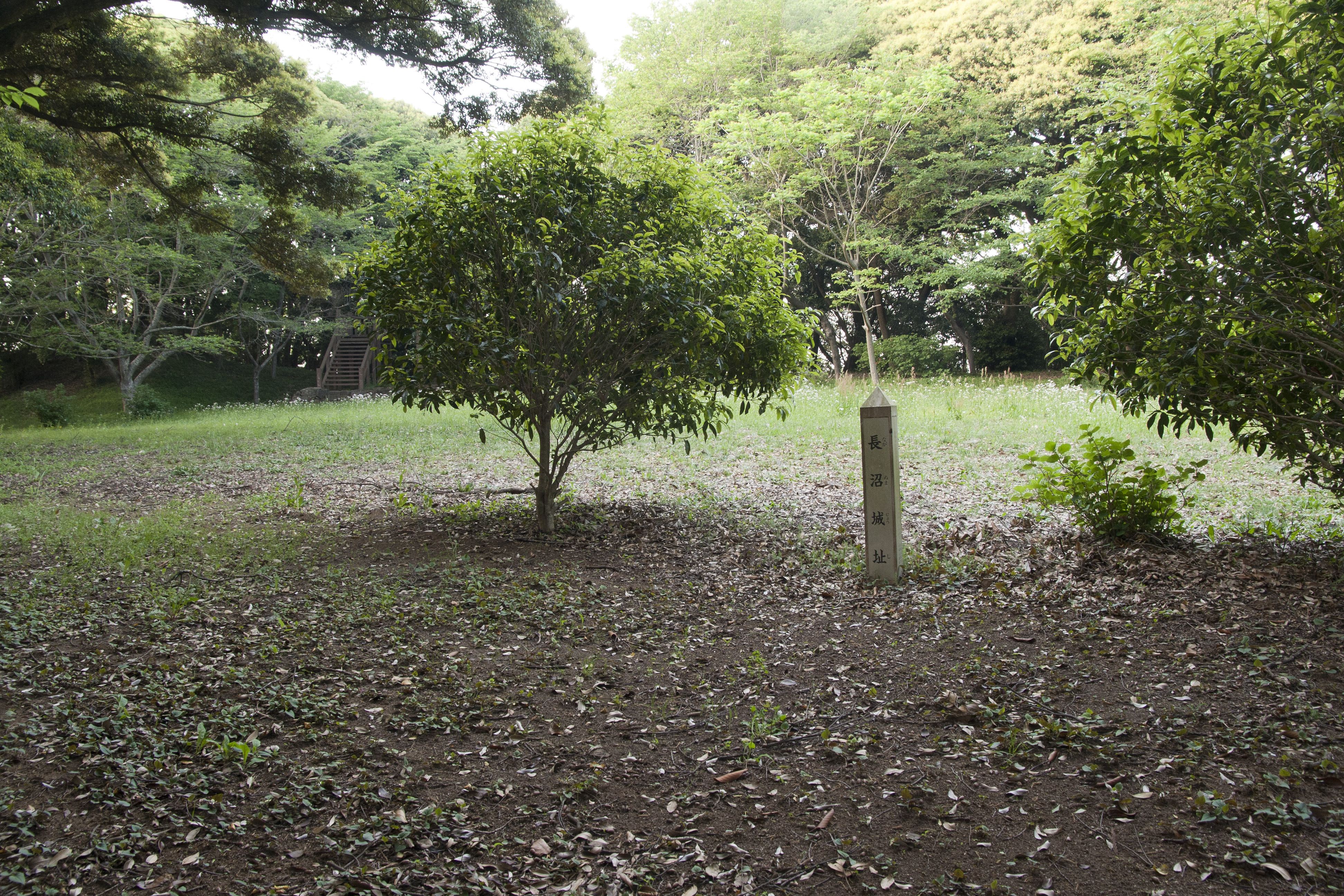 Naganuma Castle Ruins, Narita City, Chiba Pref., Japan